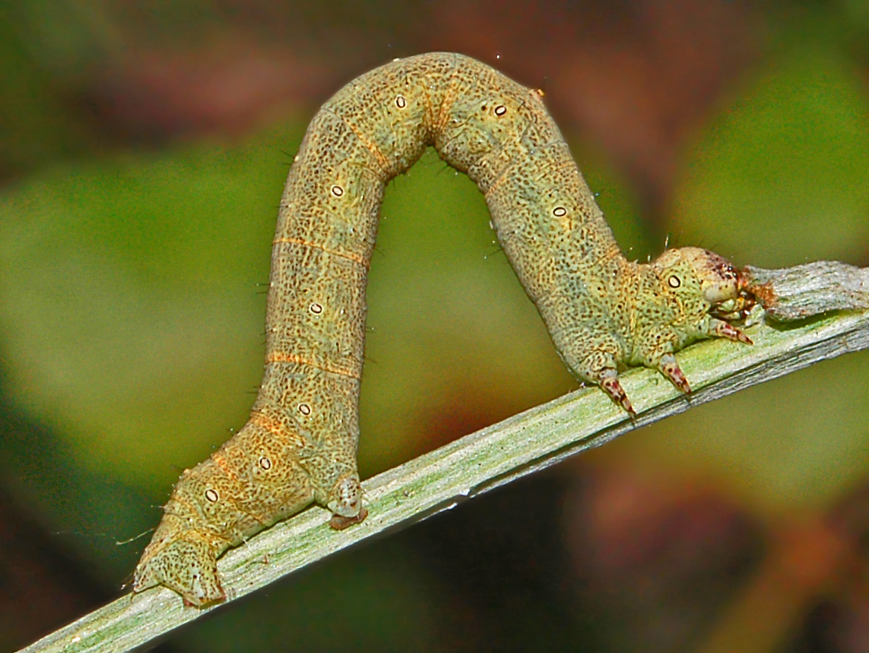 Caterpillar of Ascotis selenaria. Genova, Italy